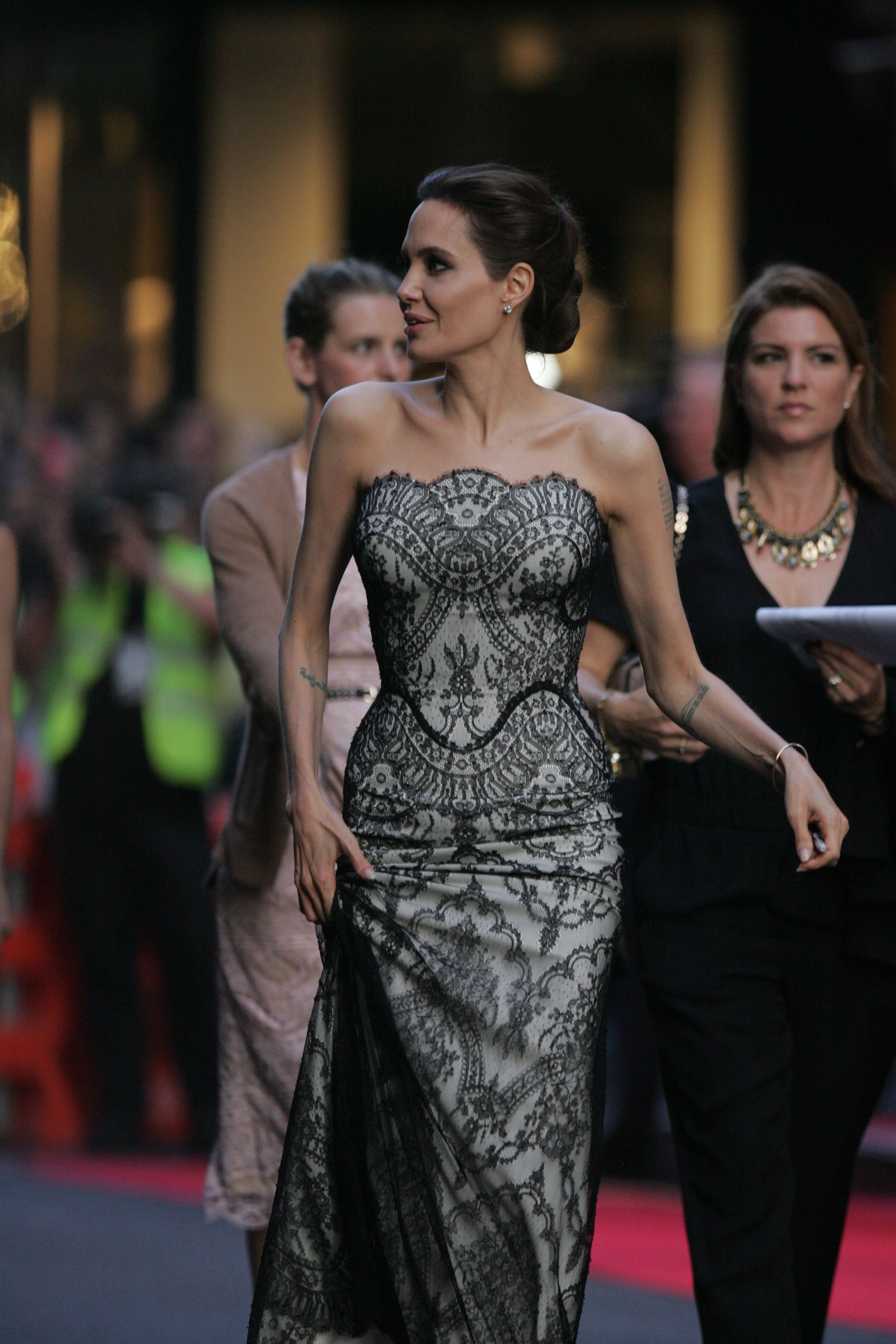 Unbroken World Premiere